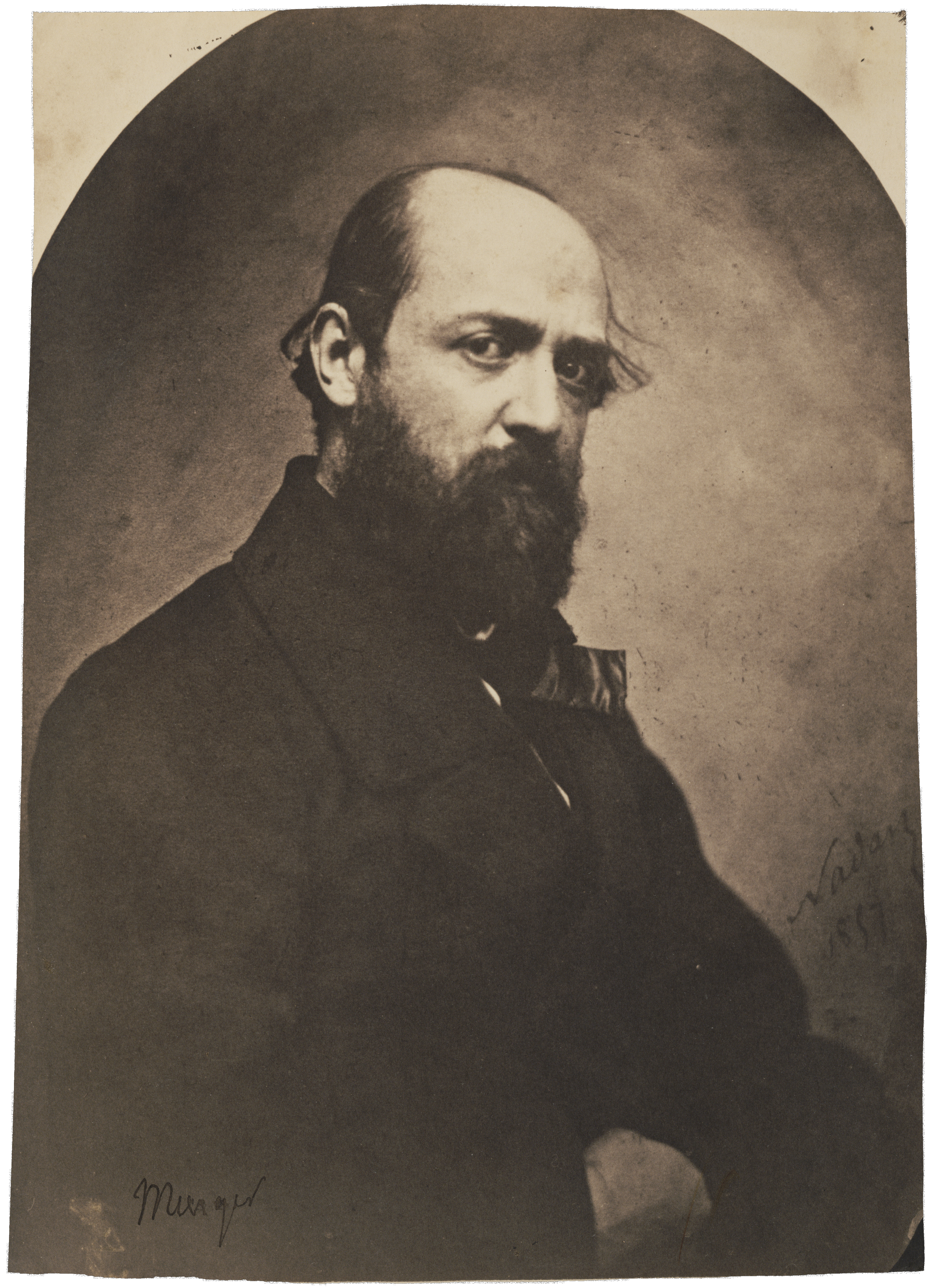 From The J. Paul Getty Trust: The turbulent life of the writer Henri Mürger originated and epitomized the durable myth of a starving artist struggling to survive in a garret in Paris. His friends were not-yet-famous poets, artists, writers, and musicians, and his short stories about their lives made him famous. These ironic accounts encapsulated and celebrated the bohemian milieu in which both Nadar and Mürger were conspicuous figures. Nadar and Mürger's lives were entwined throughout the 1840s, their deep friendship ending only when Mürger, weakened by hardship and dissipation at the age of forty, died in Nadar's arms. Shortly afterwards Nadar joined two friends in writing a memorial book that included Mürger's letters. It may have been at this time that Nadar rephotographed his 1857 portrait of Mürger to make this tombstone-shaped print. Mürger appears much older than his thirty-five years, and his eyes are oddly wary as he looks toward the camera and one of his closest friends.